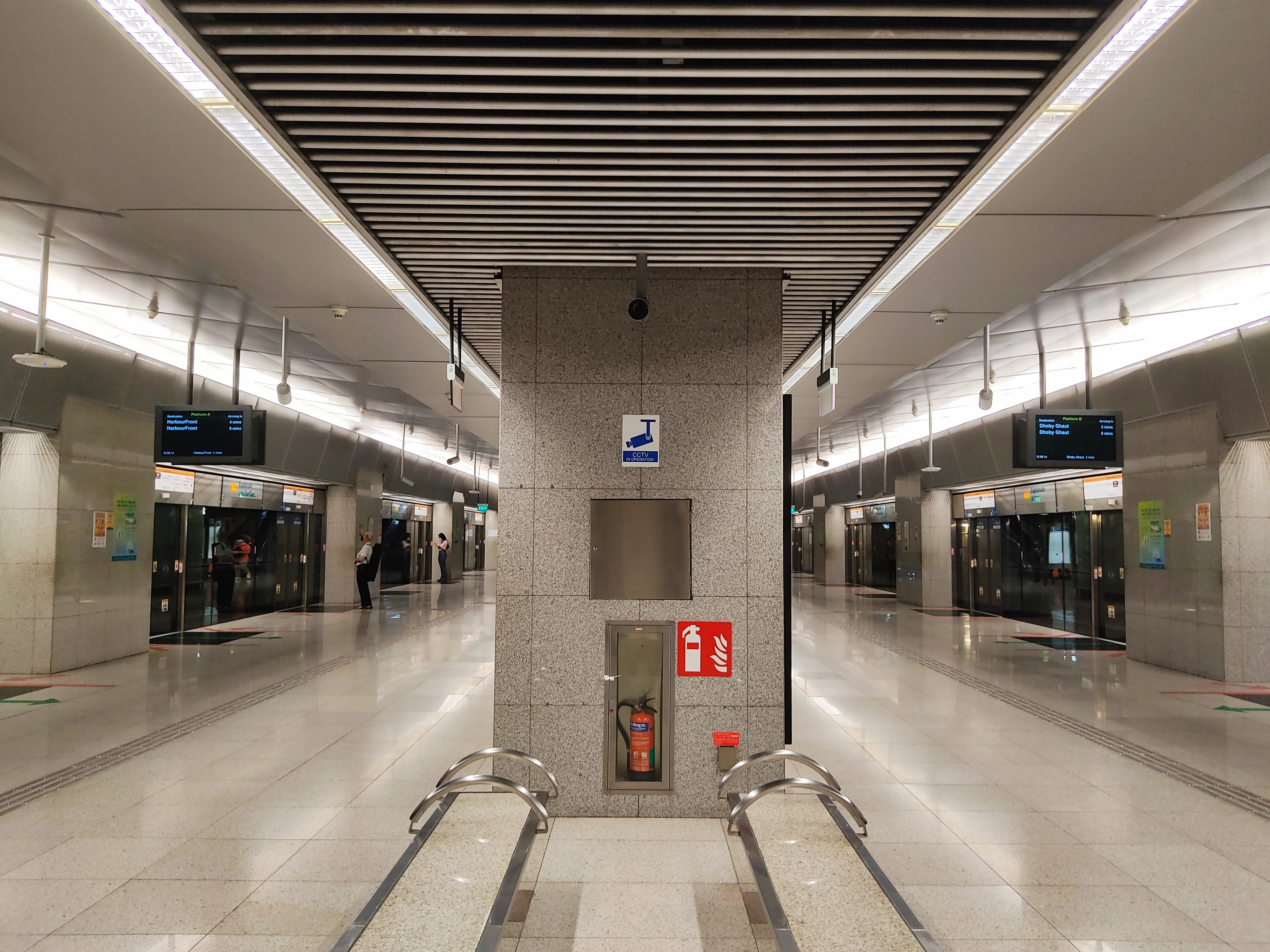 MRT platforms at Esplanade